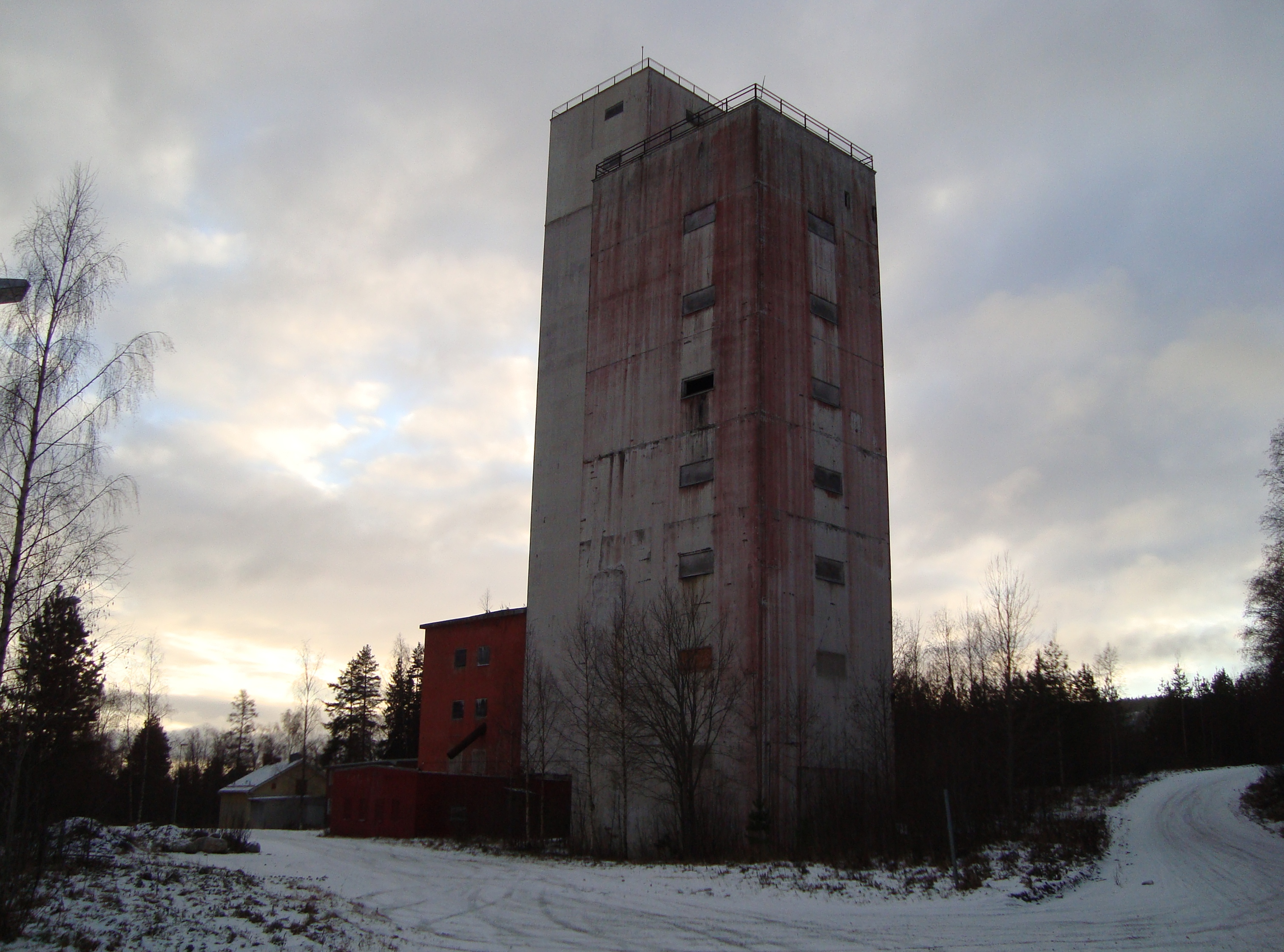 Remains of the iron mine in Idkerberget, Borlänge municipality, Sweden